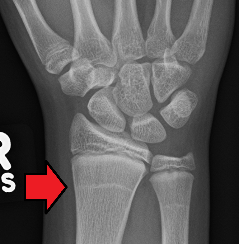 Growth arrest lines in a 13 year old male with an underlying bone disease